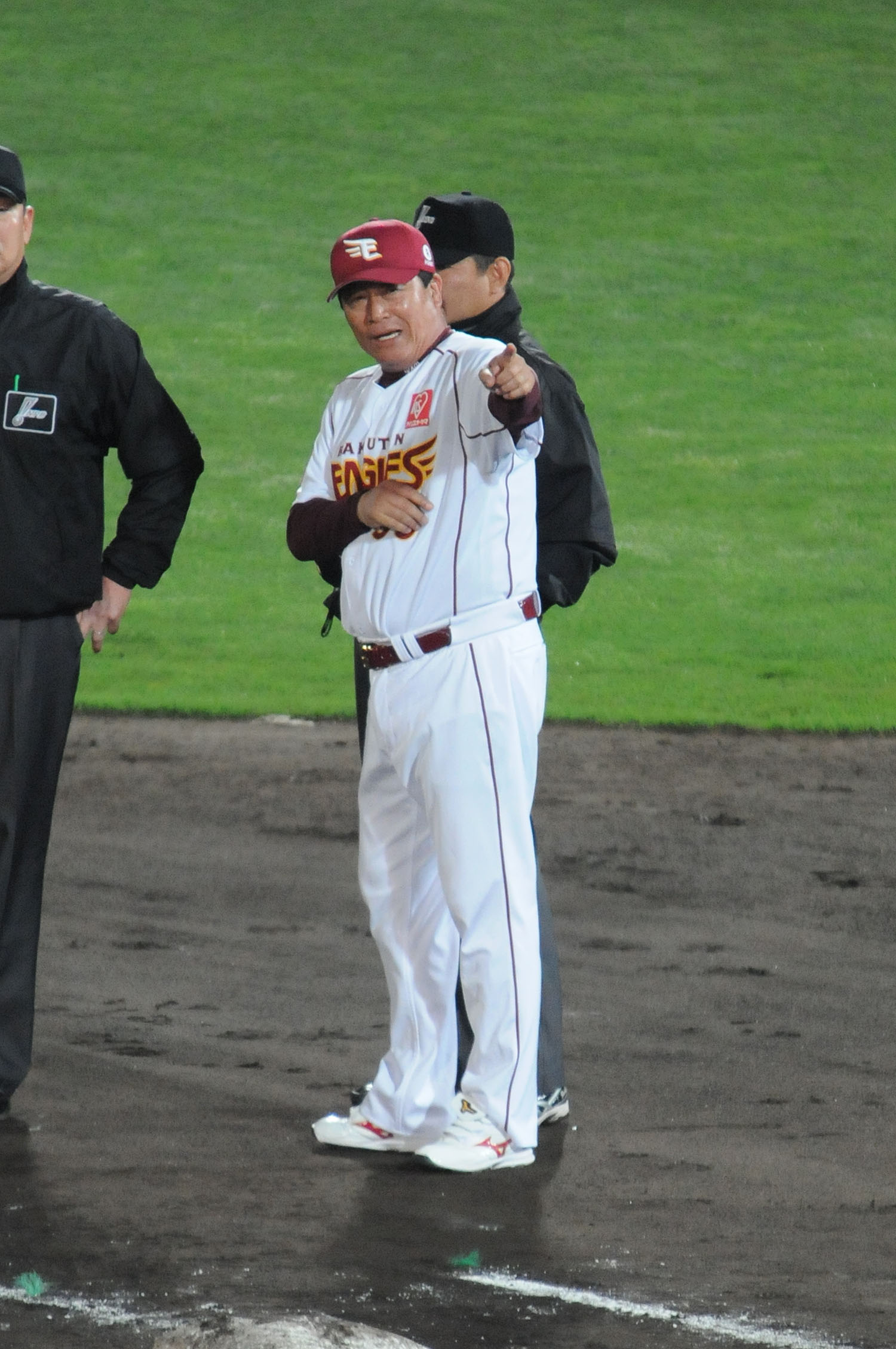 Masataka Nashida, manager of the Tohoku Rakuten Golden Eagles, at Akita Prefectural Baseball Stadium